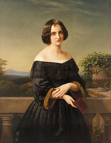 Marie Wiegmann 1843. Painted by Carl Ferdinand Sohn.